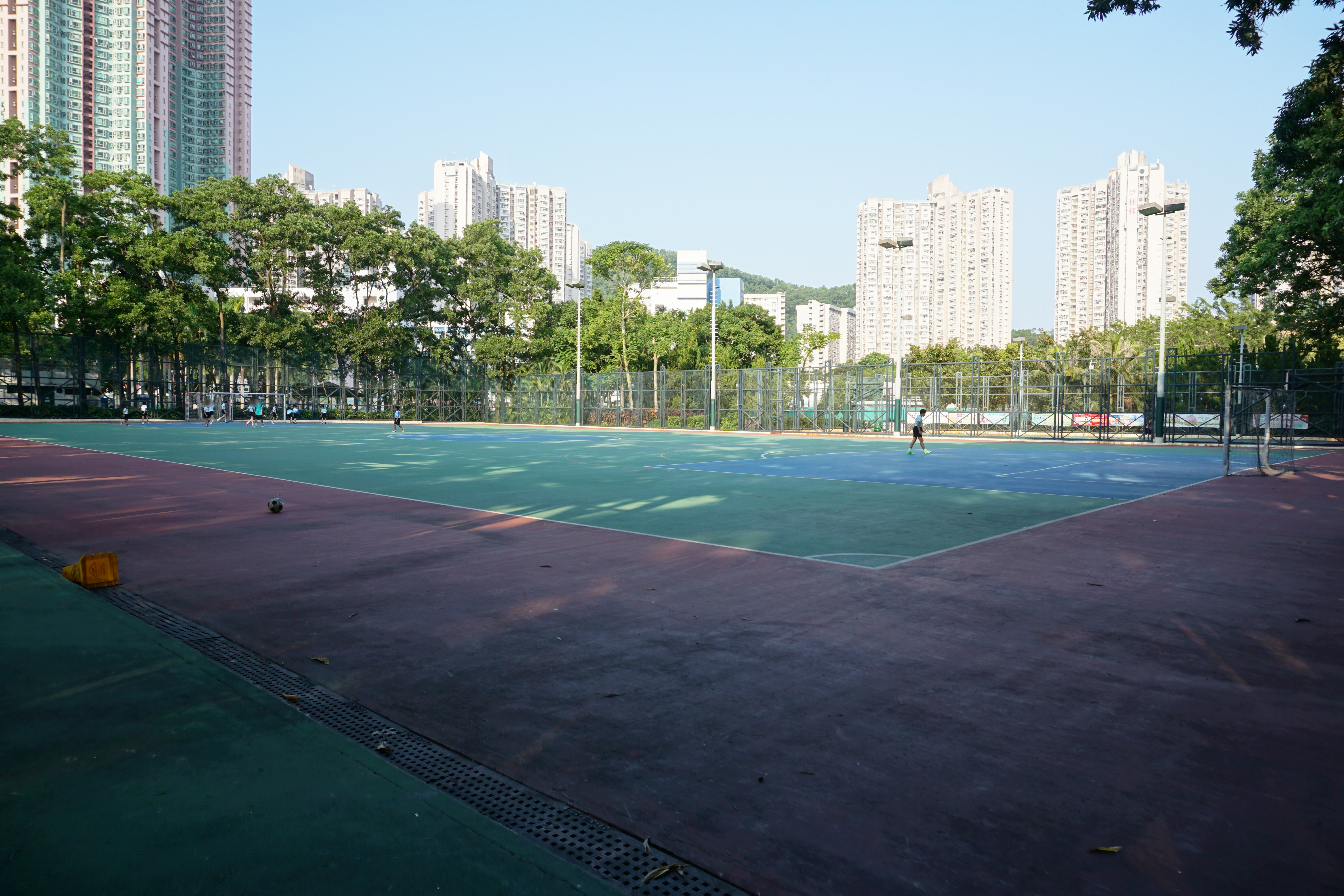 Po Hong Park in Po Lam, Hong Kong.